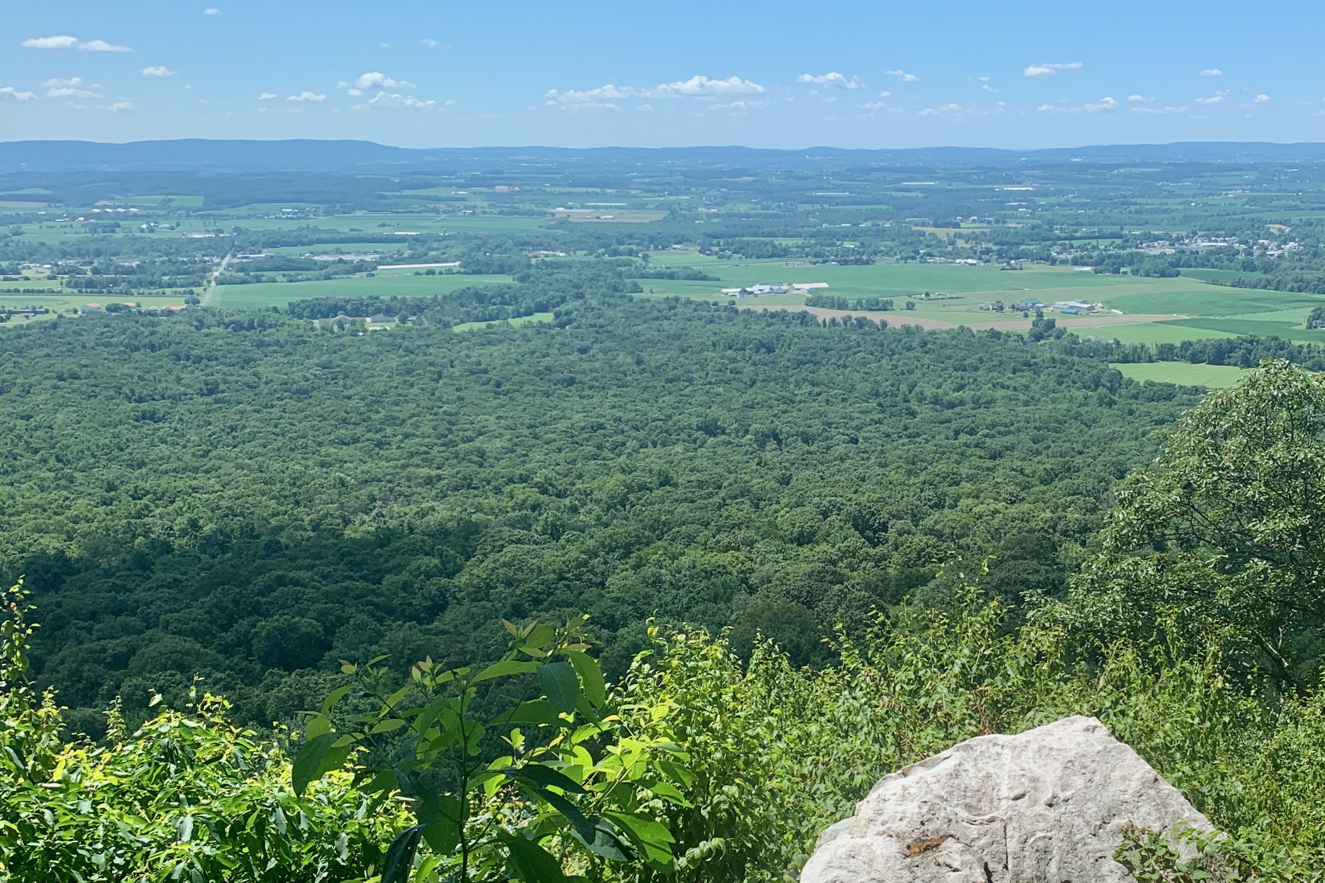 View from Shikellamy Summit on the Appalachian Trail near Shuberts Gap in Berks County, Pennsylvania.